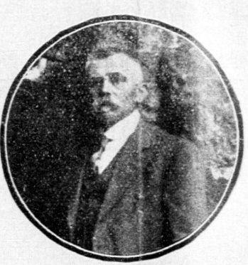 Mayor of Ambt Doetinchem 1920-1922